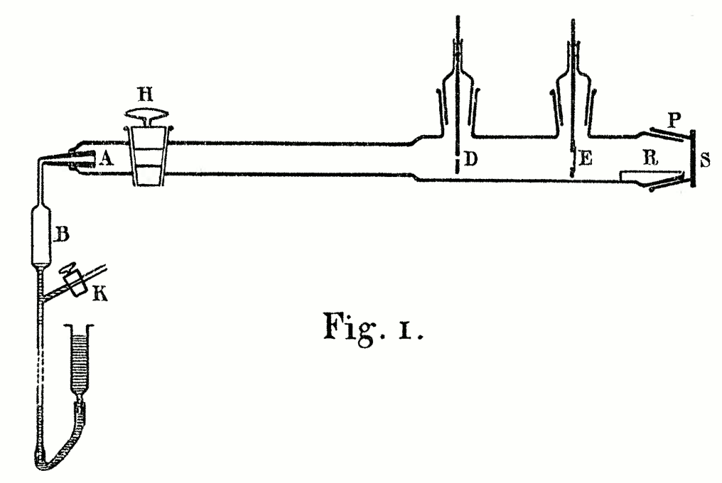 An original illustration by Hans Geiger of the tube by which he observed the scattering of alpha particles by metal foils. A - conical tube B - bulb containing "radium emanation" (radon-222) D - narrow aperture E - metal foil K - stopcock through which the radium emanation was introduced to the bulb S - zinc sulfide screen